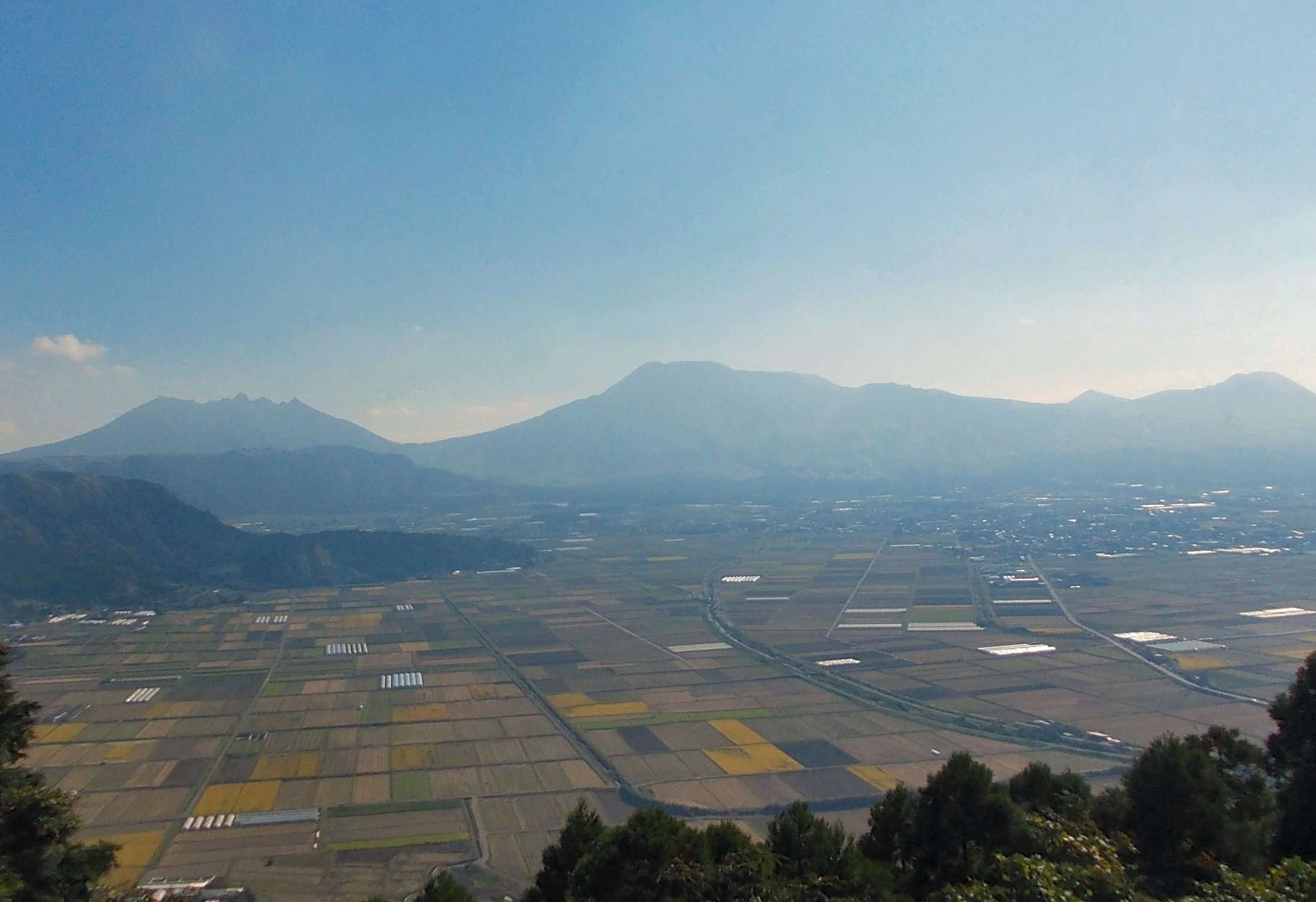 A distant view of Aso caldera and the five mountains of Aso from Shiroyama Viewpoint, Aso, Kumamoto, Japan.